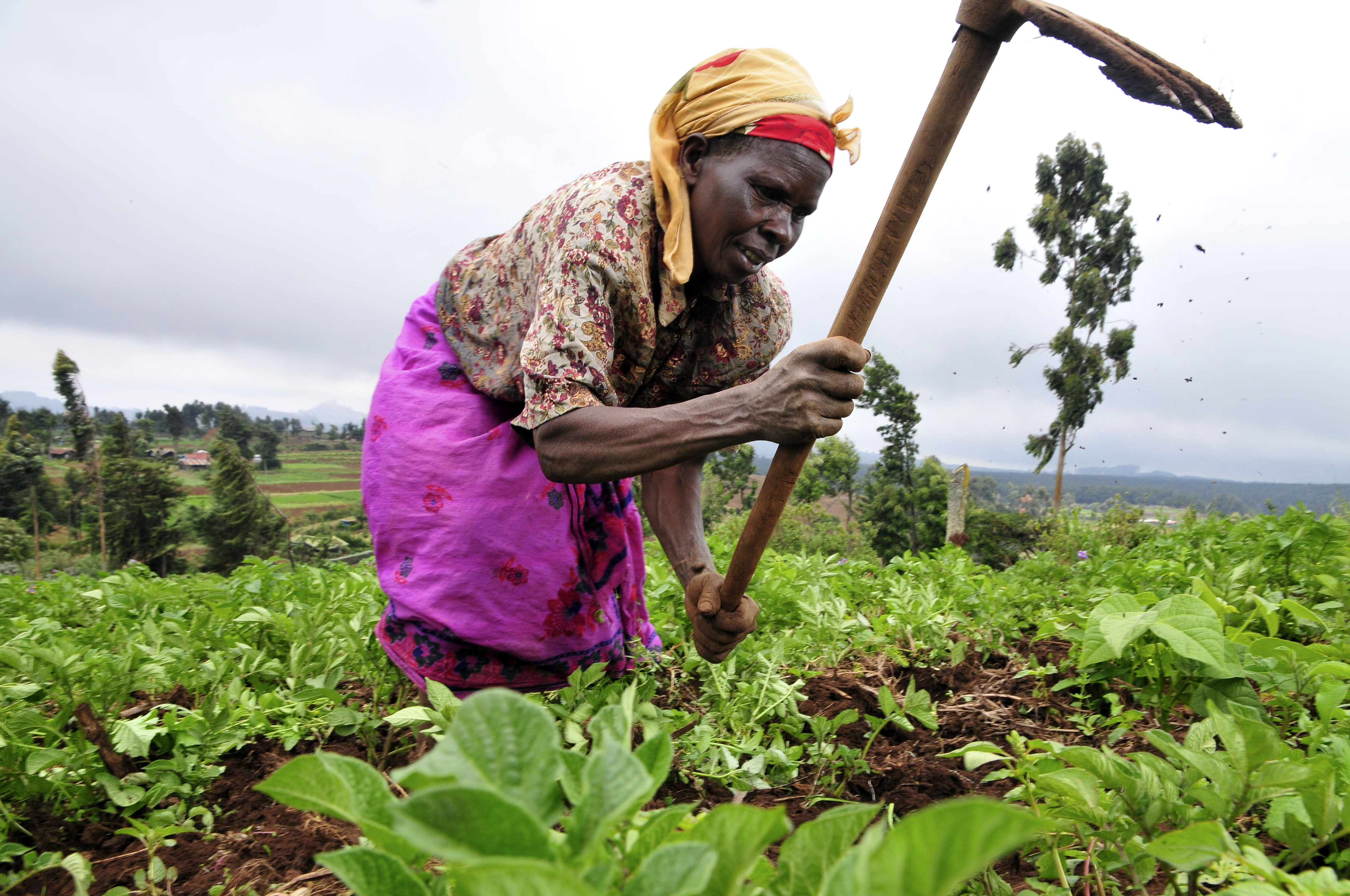 Pic by Neil Palmer (CIAT). A farmer at work in Kenya's Mount Kenya region.